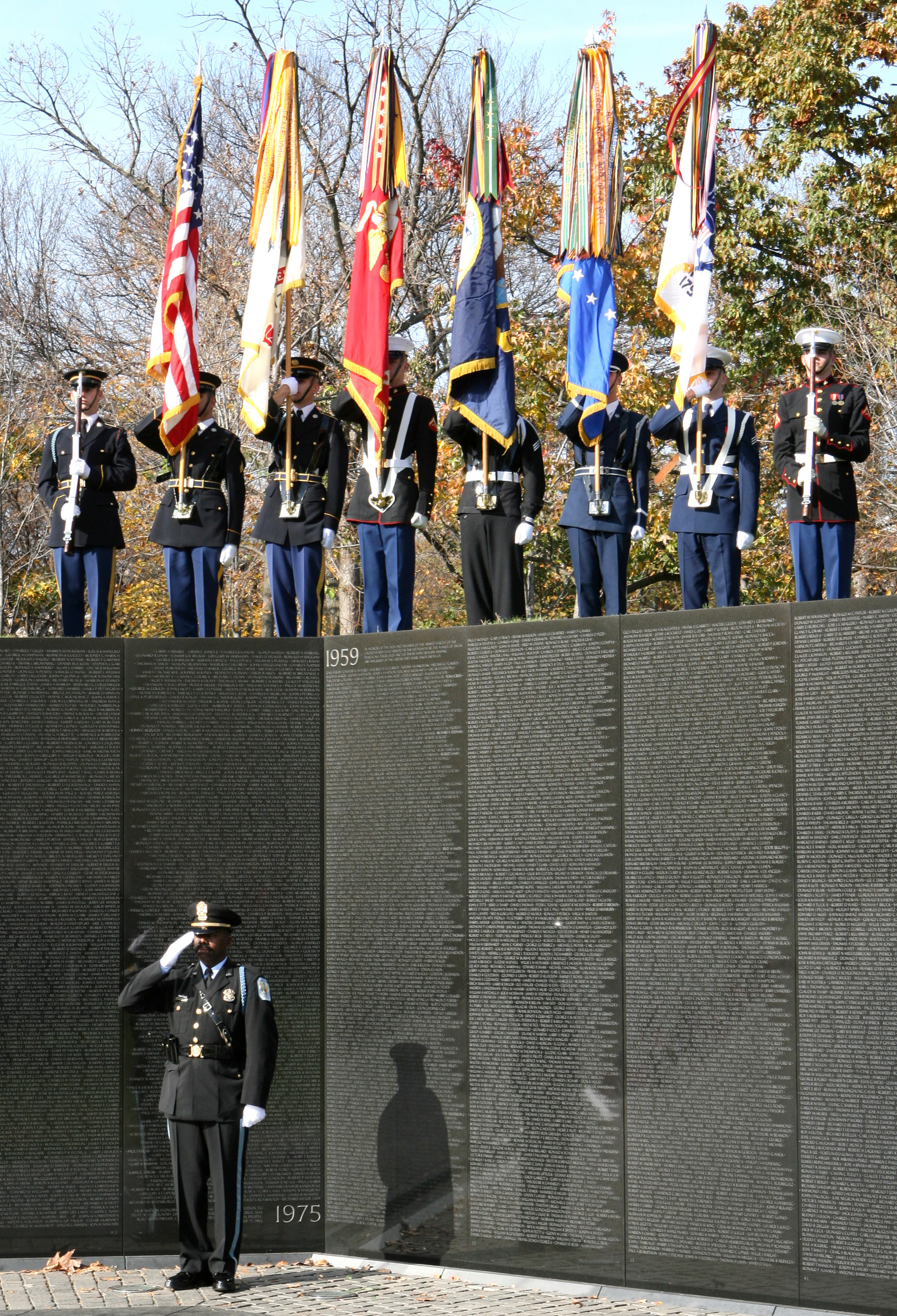 The Armed Forces Color Guard presents the services' colors and U.S. flag during the 15th Anniversary Commemoration of the Vietnam Women's Memorial at the Vietnam War Memorial in Washington, D.C., Nov. 11, 2008.